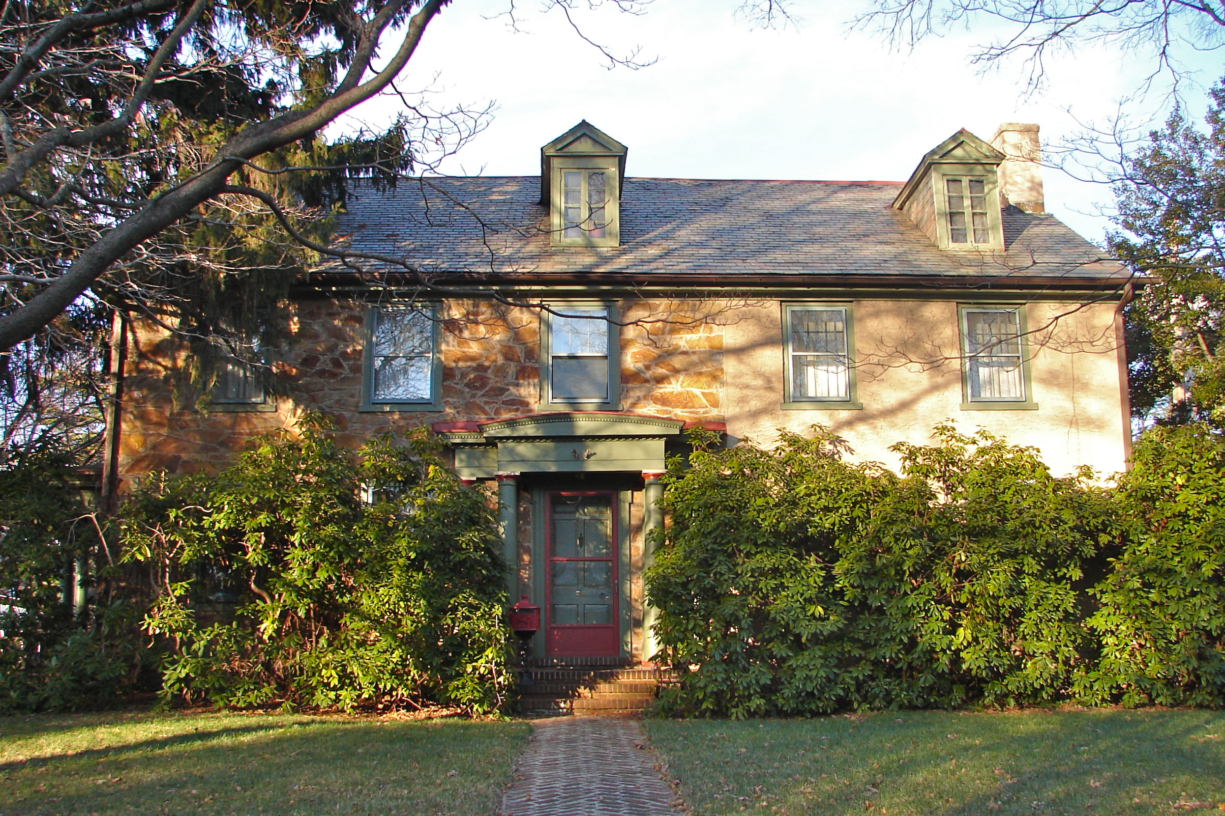 Anderson House on the NRHP since February 24, 1983. At 50 W. Park Pl., Newark, Delaware near the University of Delaware campus.